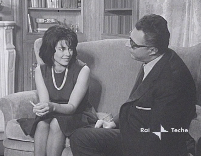 Italian writer Luigi Silori and Italian actress Giovanna Ralli on the set of RAI broadcast "Uomini e libri", 1963